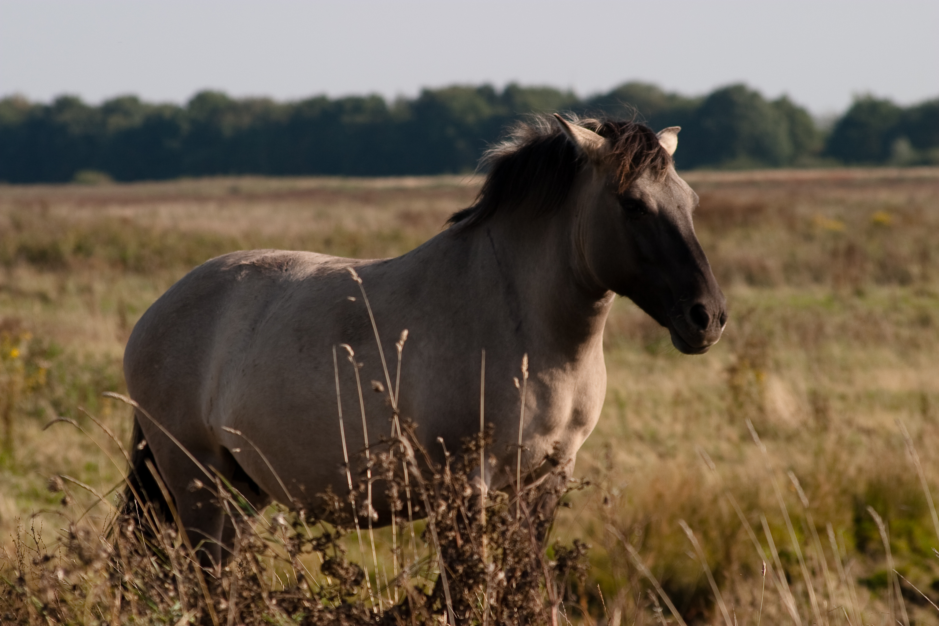 The Konik